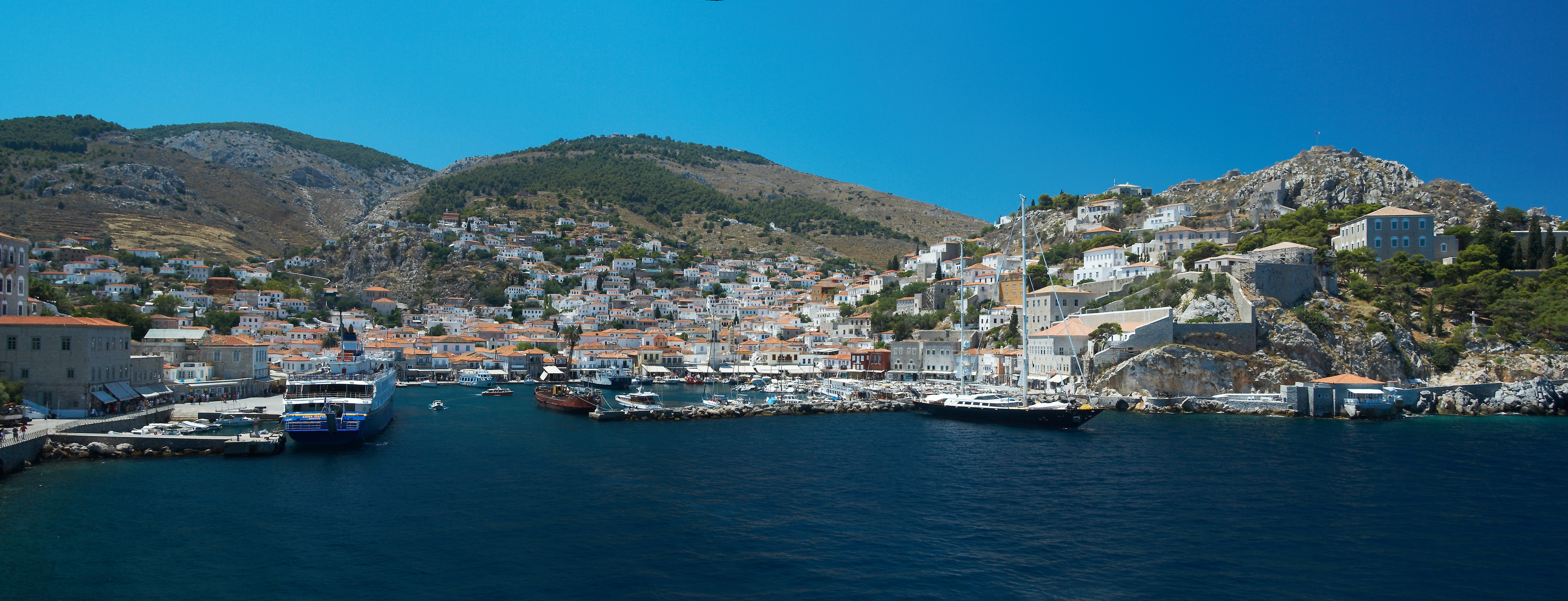 Hydra's port, Greece.